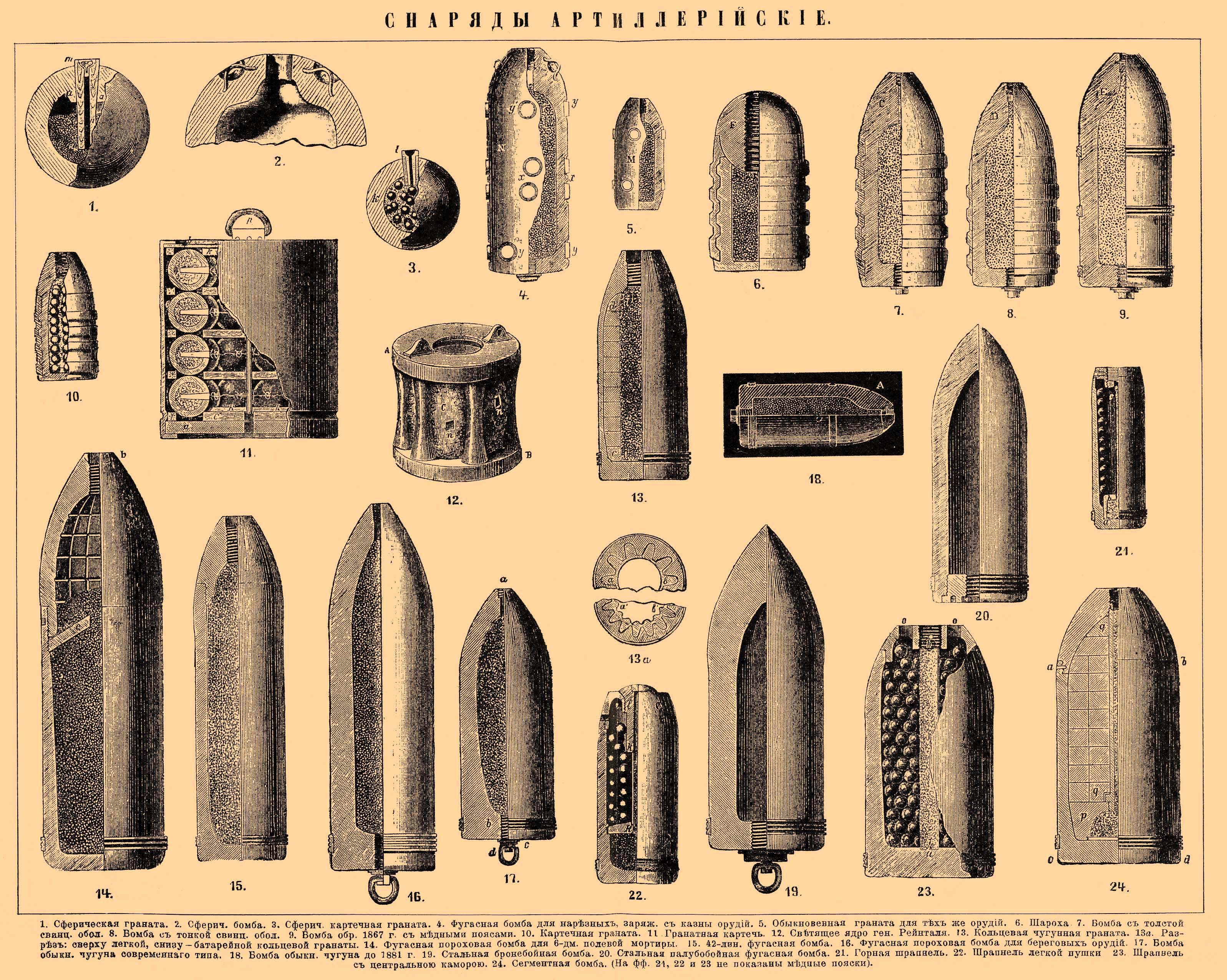 Illustration from Brockhaus and Efron Encyclopedic Dictionary(1890—1907)